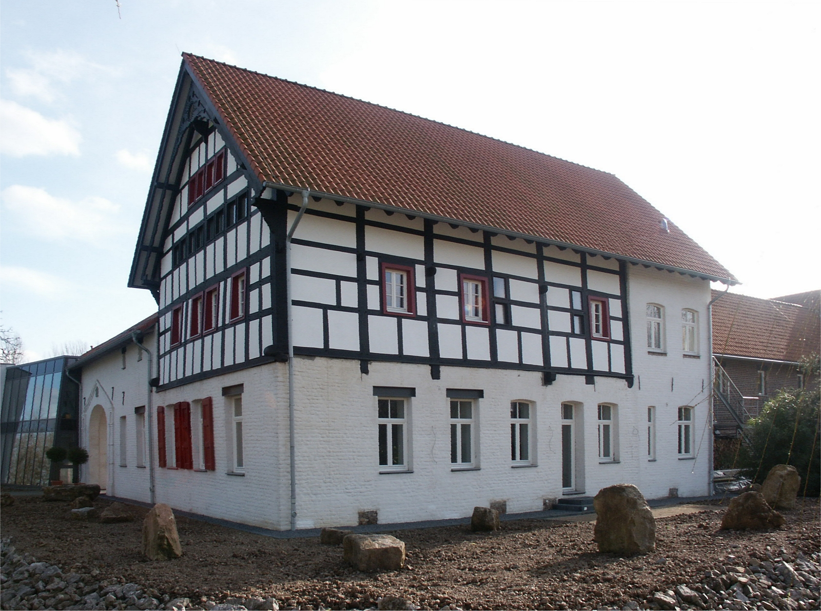 Gut Gansbroich in Hückelhoven-Baal